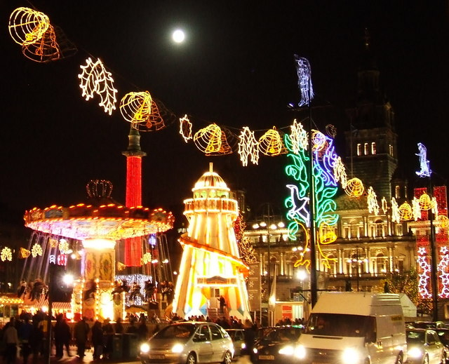 Christmas funfair In George Square. Glasgow City Chambers can be seen beyond.